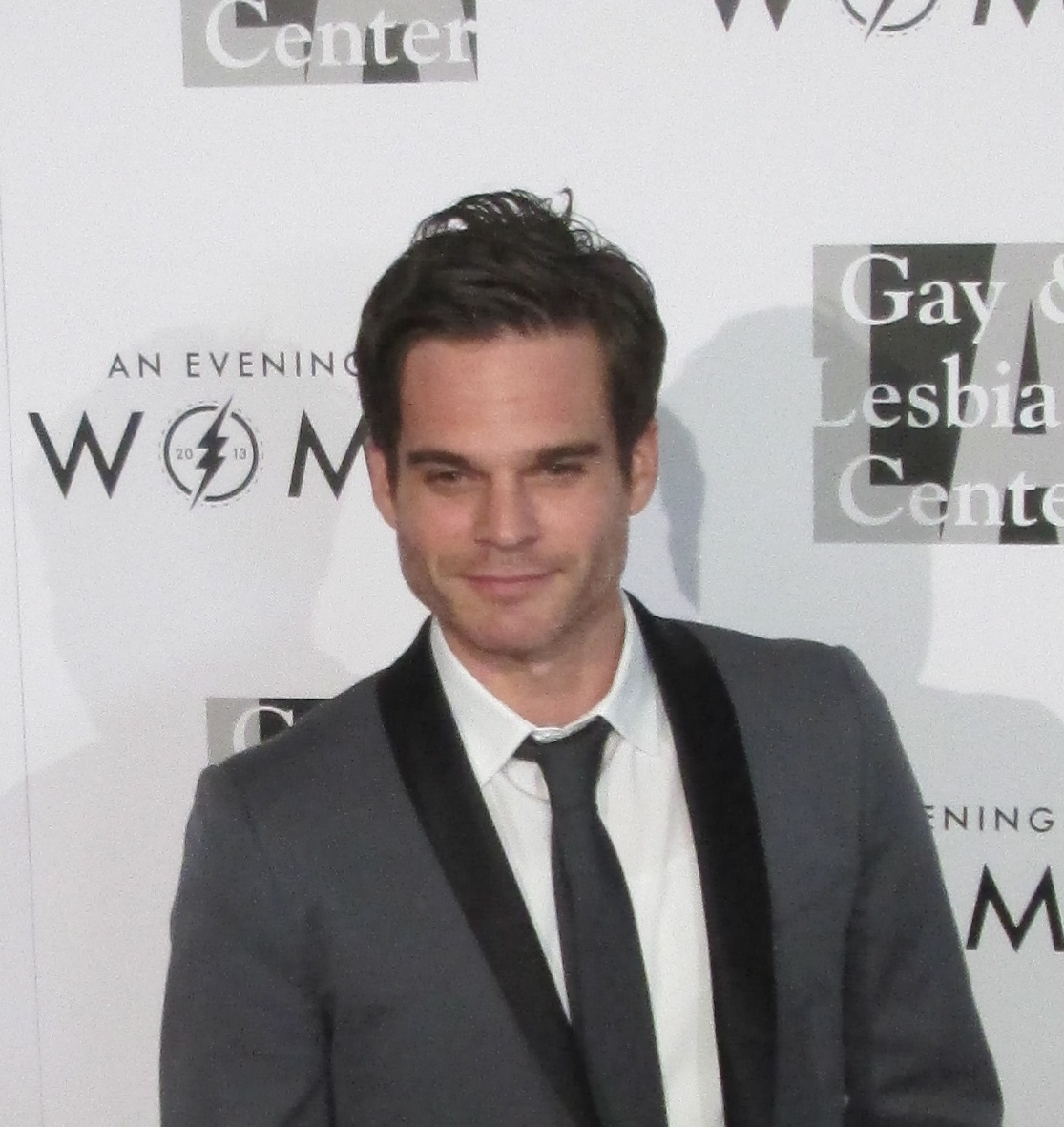 Greg Rikkart At An Evening With Women event at Beverly Hilton, May 18, 2013